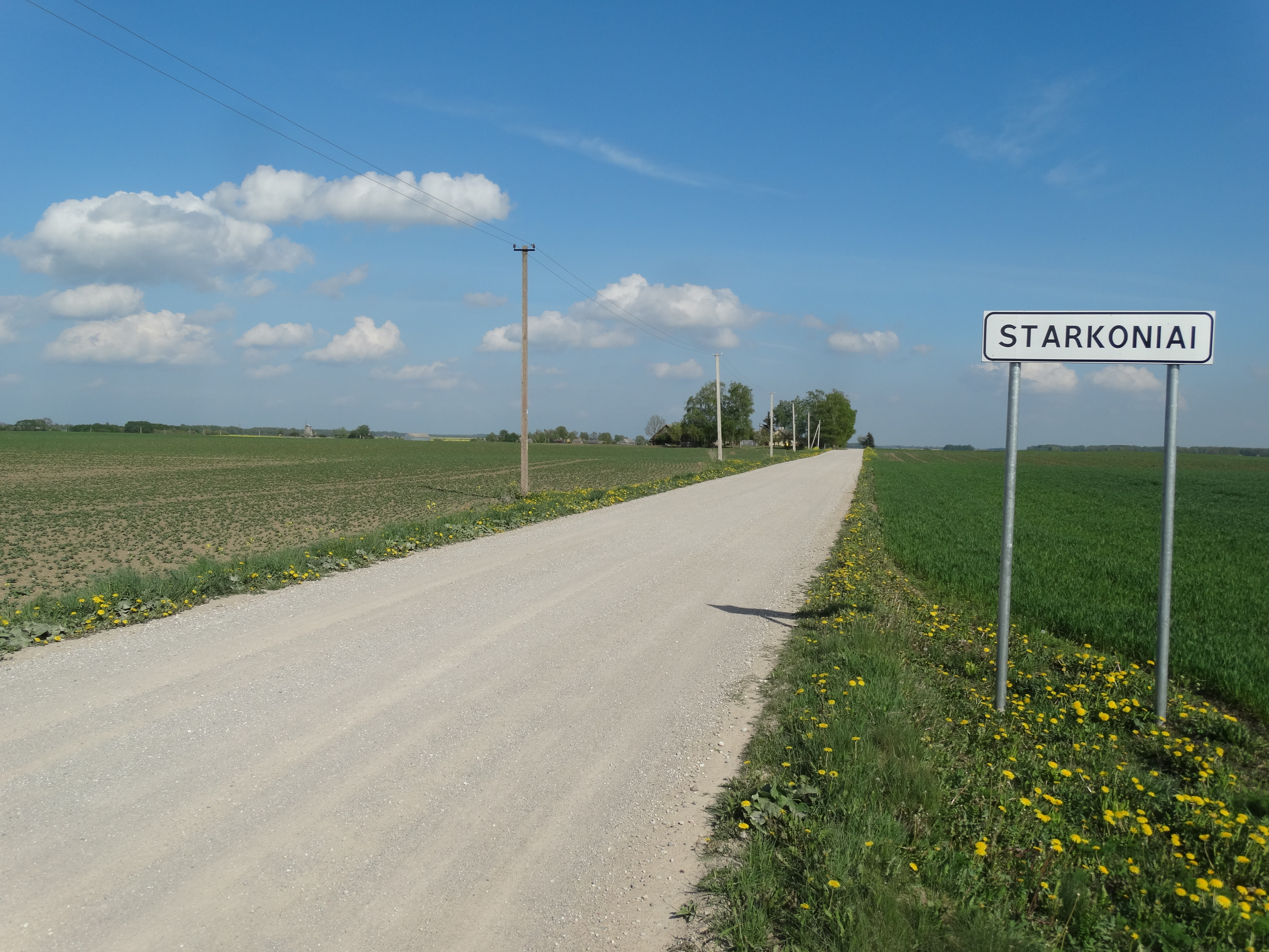 Starkoniai, Pakruojis district, Lithuania